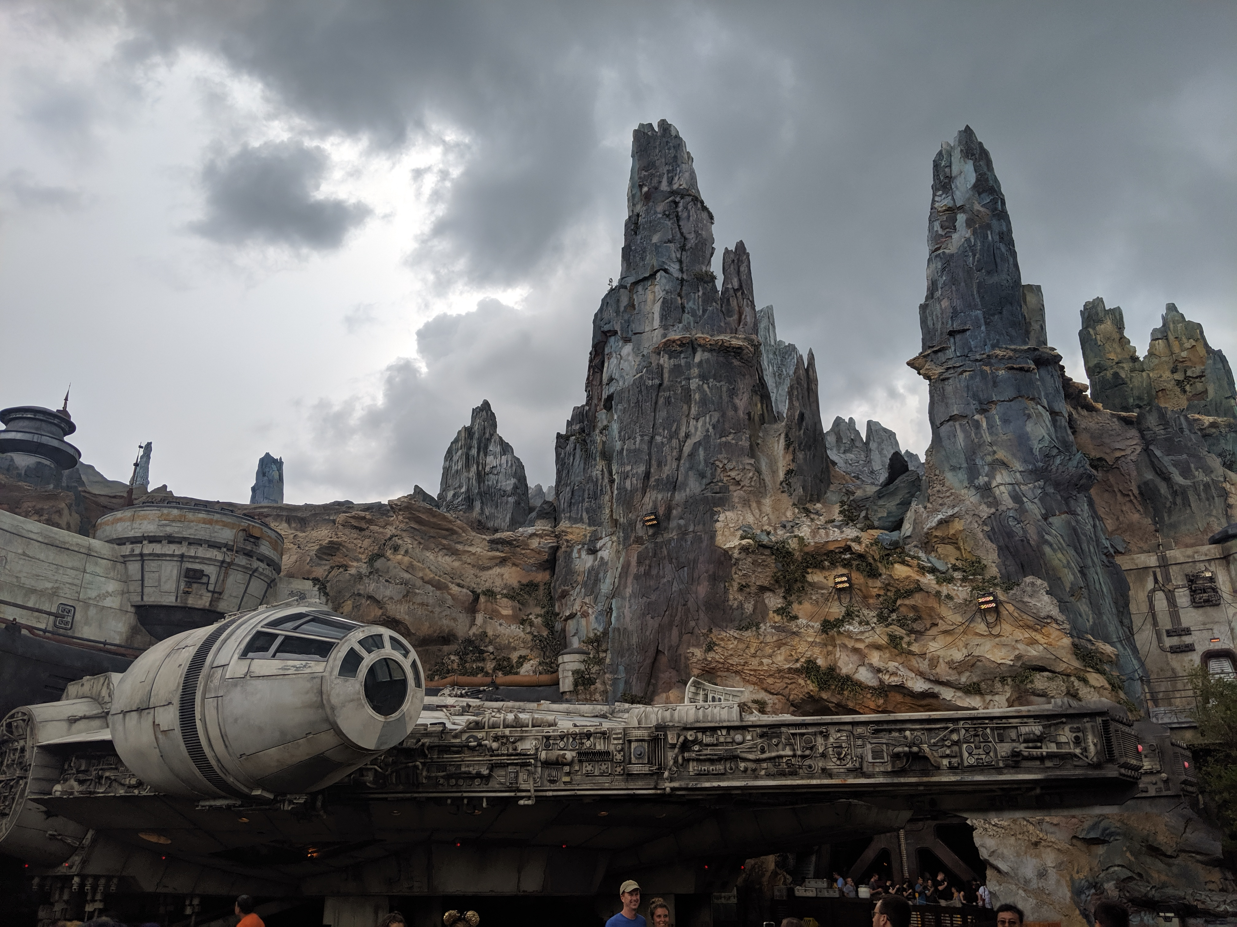 The Millennium Falcon in front of Millennium Falcon: Smugglers Run